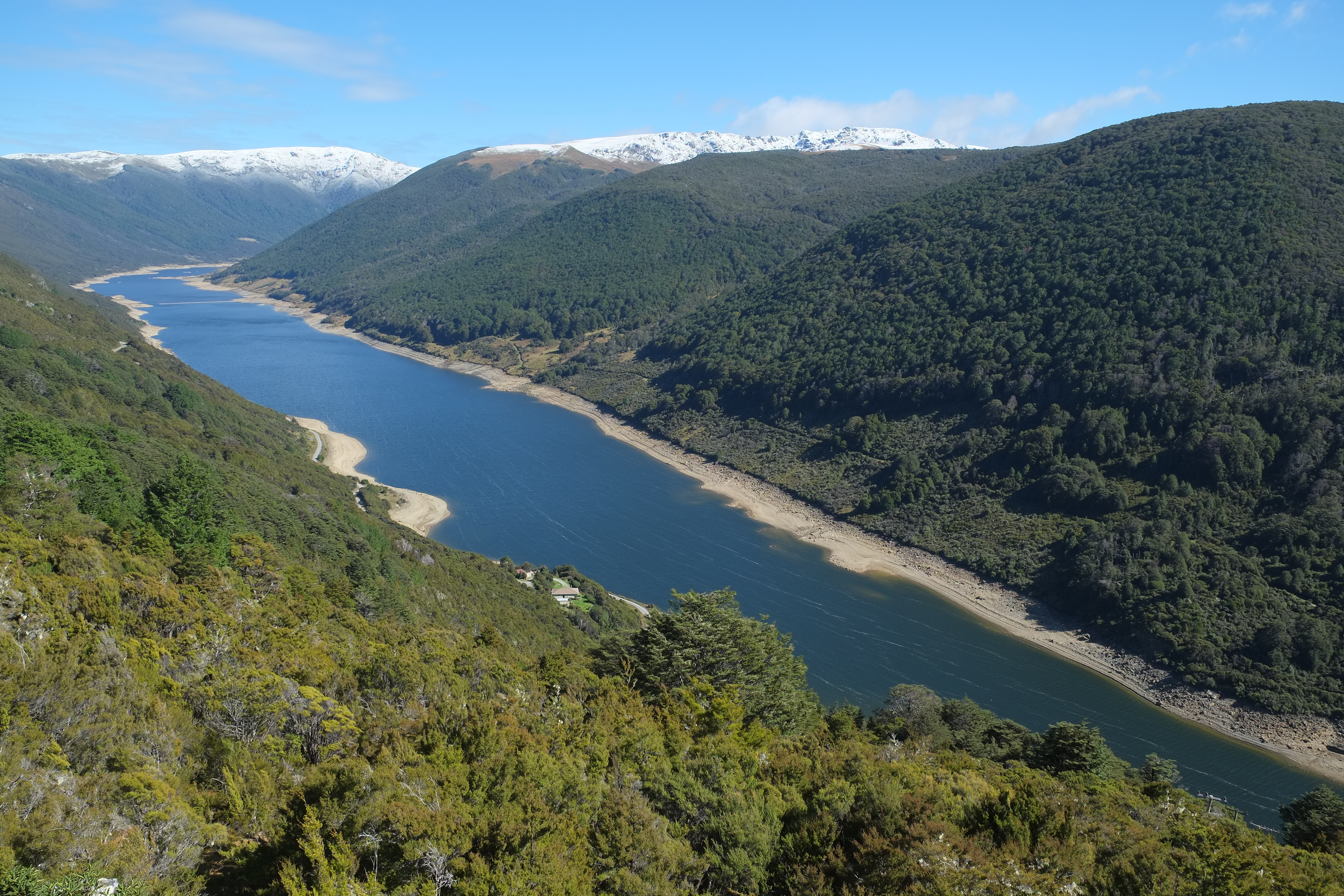 Cobb Reservoir Lake in autumn (low water level), viewed from Cobb Ridge looking west. The first autumn dusting of snow covers mountain ridges in the Kahurangi National Park.